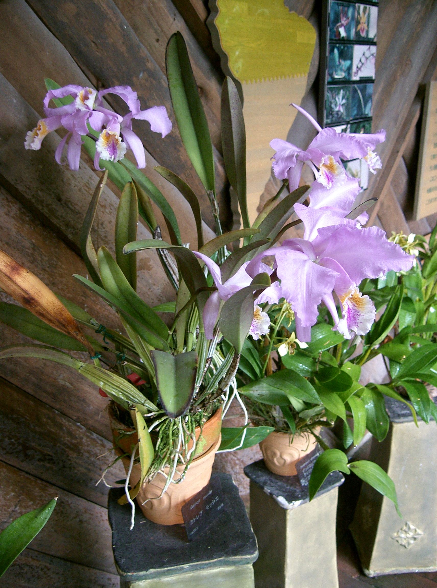 Scientific name Cattleya mossiae Place:Osaka Prefectural Flower Garden,Osaka,Japan